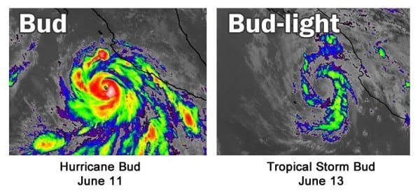 Infrared satellite image comparison of Bud on June 11 and 13 respectively. The former is at Category 3 strength, while the latter is at TS strength.